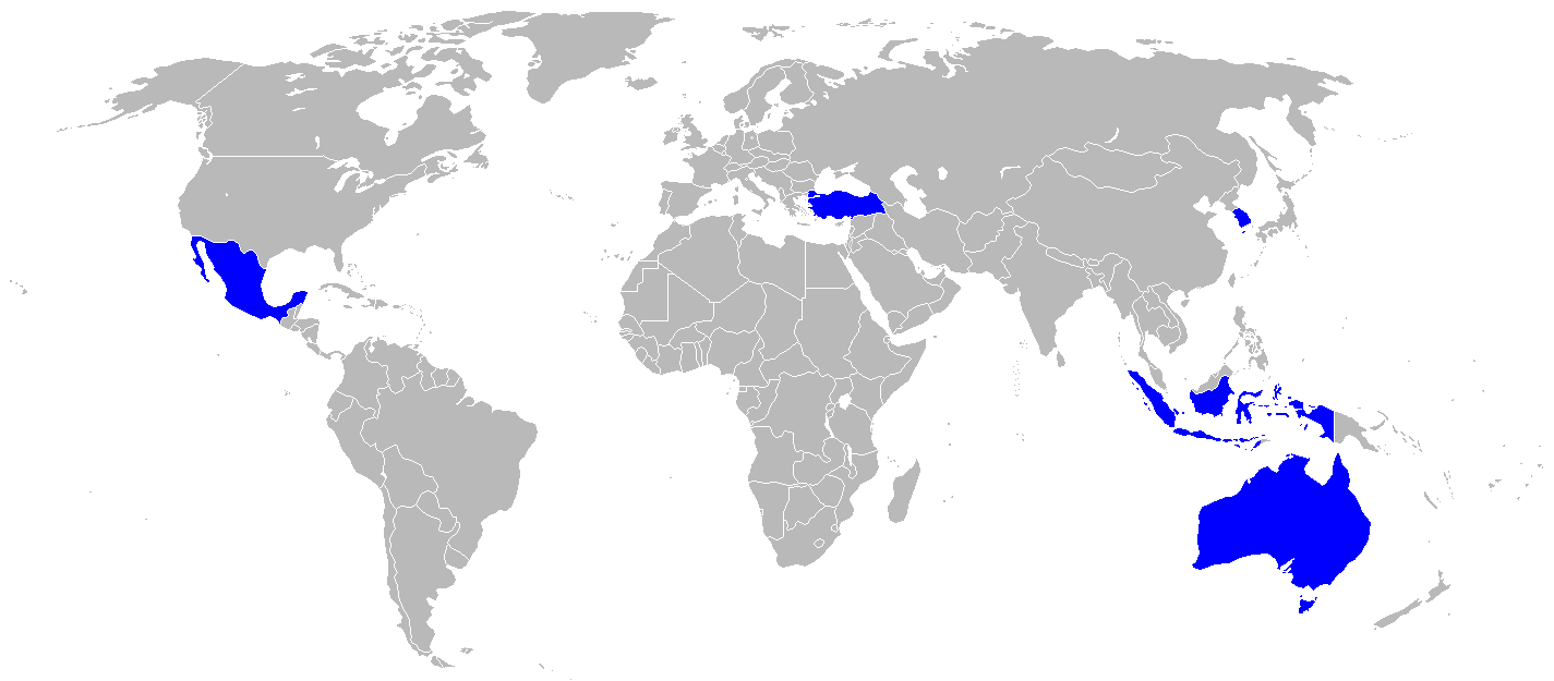 MIKTA countries